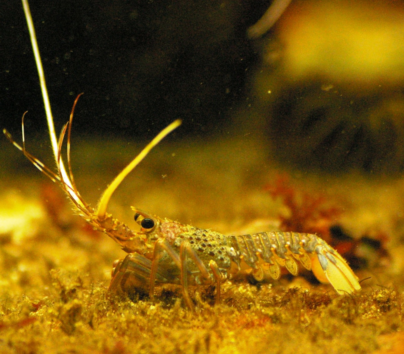 This is a tightly cropped and slightly brightened version of Image:Panulirus cygnus juv 01 gnangarra.jpg. It shows a young Western Rock Lobster (Panulirus cygnus).